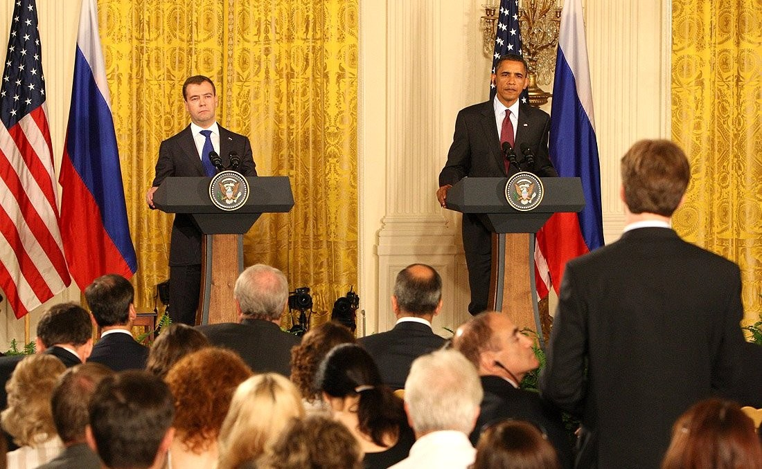 В Вашингтоне состоялись российско-американские переговоры